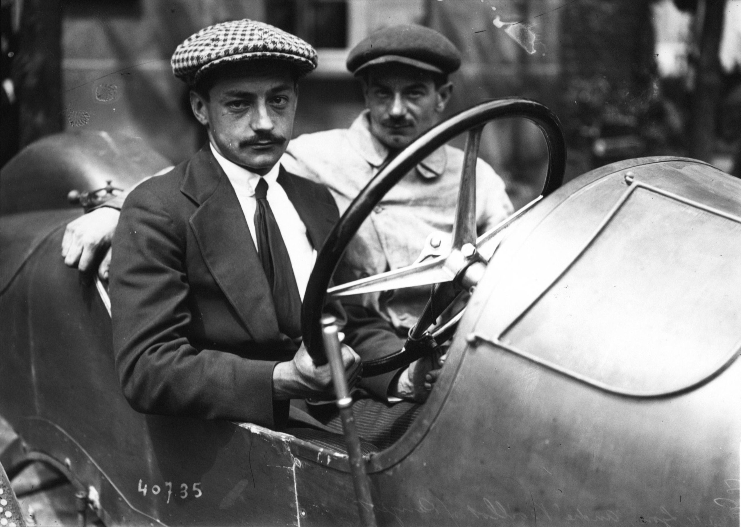 André Boillot at the 1914 French Grand Prix